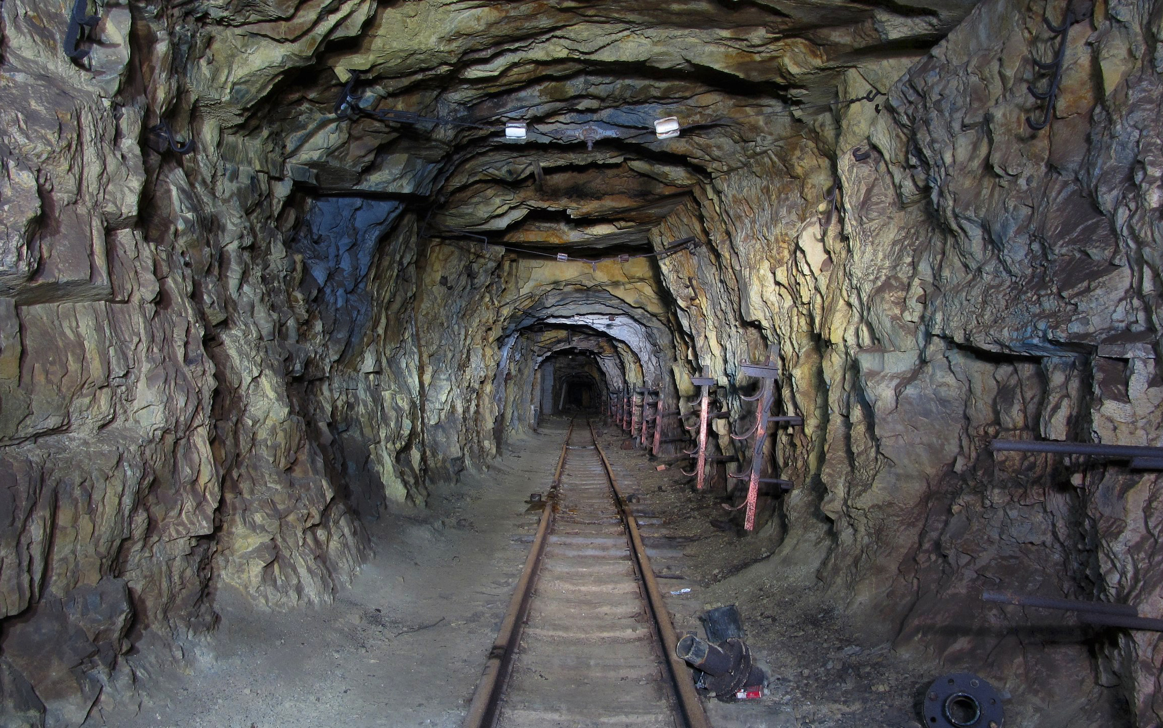 Abandoned uranium mine adit at mt. Byk